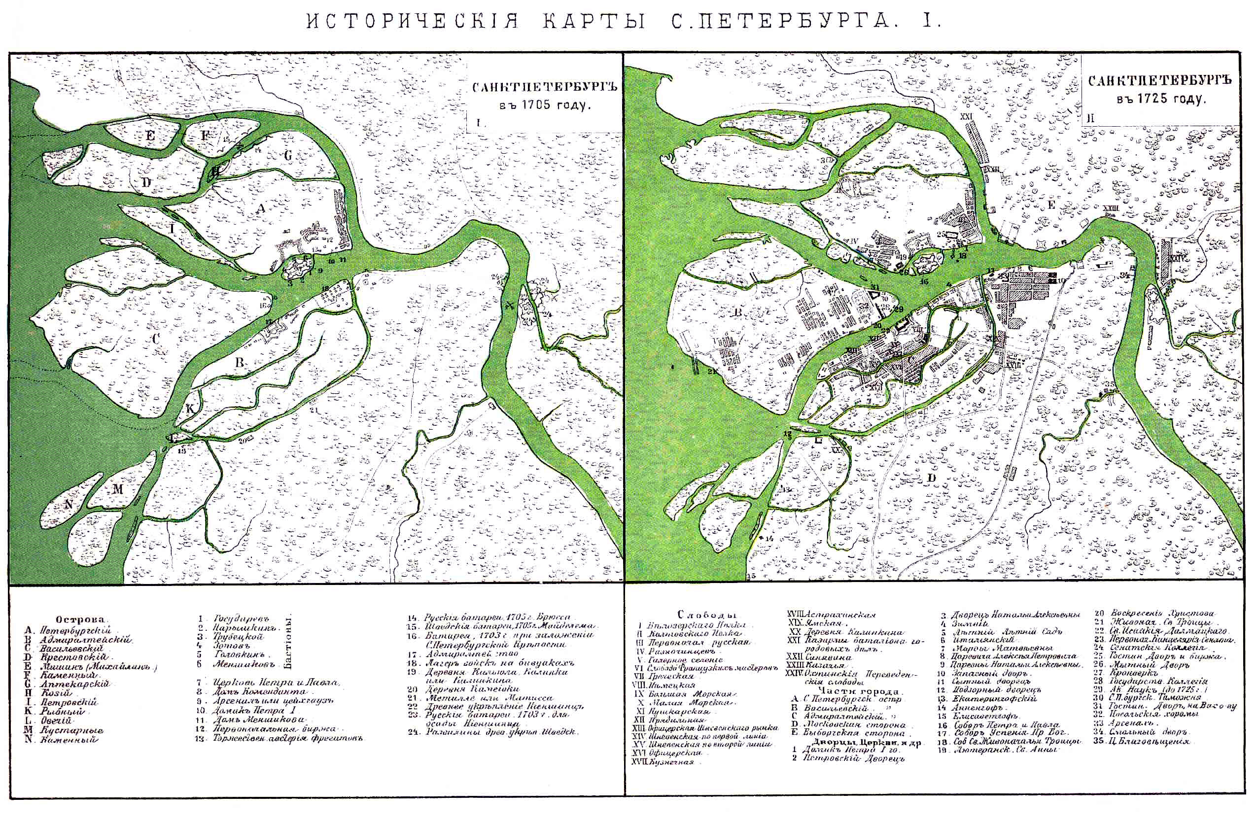 Illustration from Brockhaus and Efron Encyclopedic Dictionary (1890—1907)